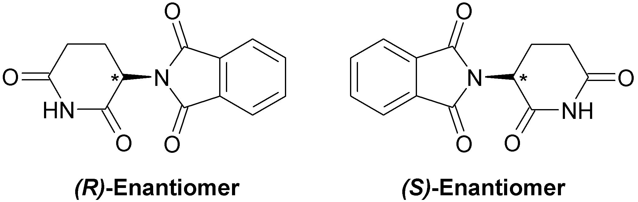 chemical structures of thalidomide enantiomers: (S)-thalidomide (left), (R)-thalidomide (right). xxx Nonsens-Drawing: please flip the arrow-bonds!